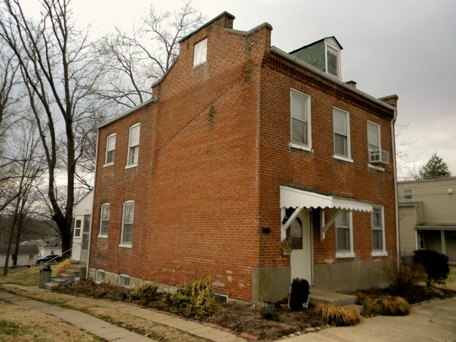 Henry Bartelmann House Seeking information re: Criteria for Register inclusion on this property.